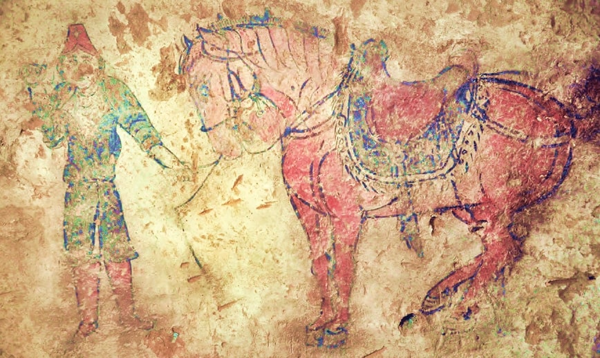 Gokturk cav